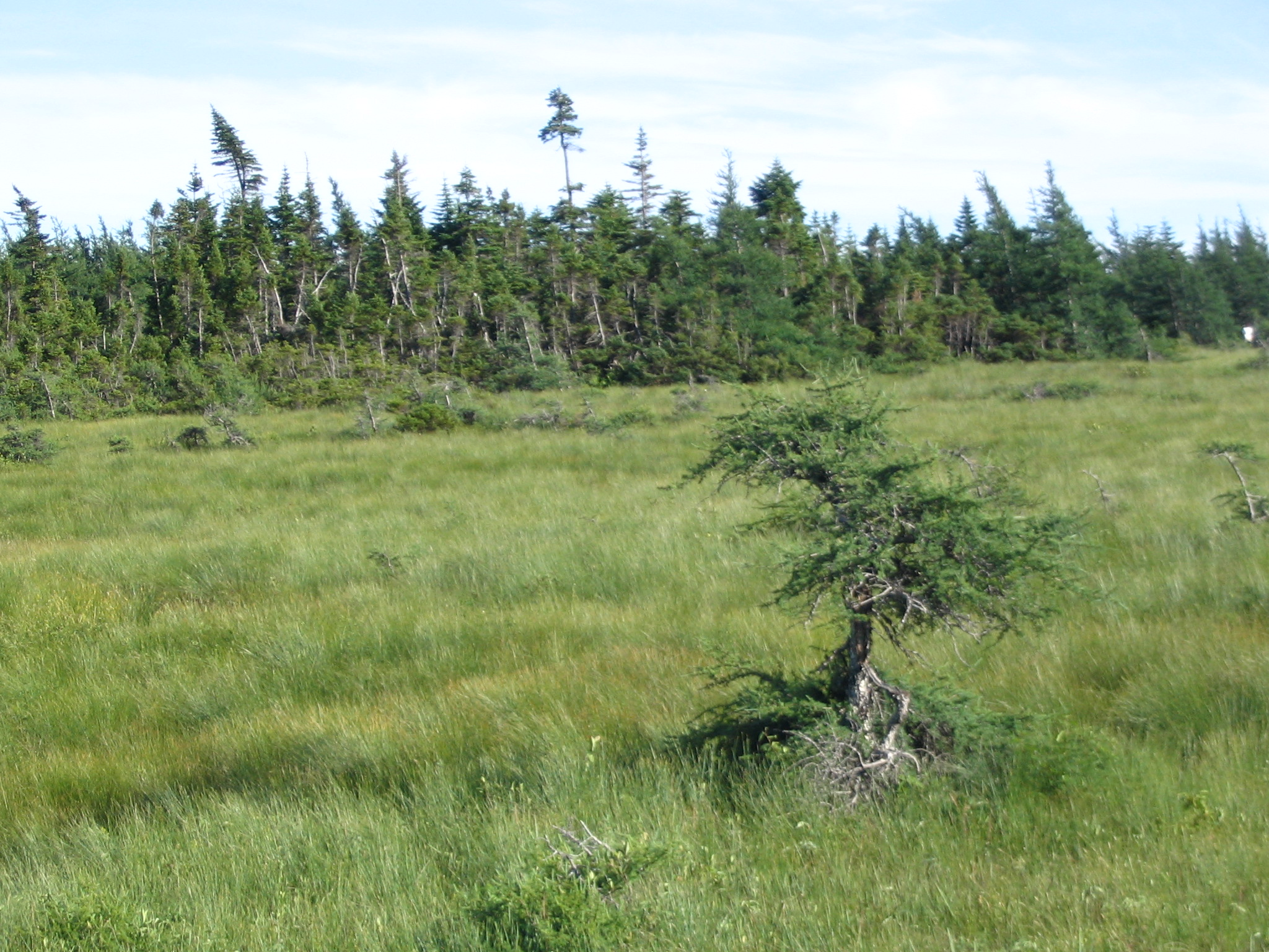 A bog, in the Cape Breton Highlands national park, Nova Scotia.